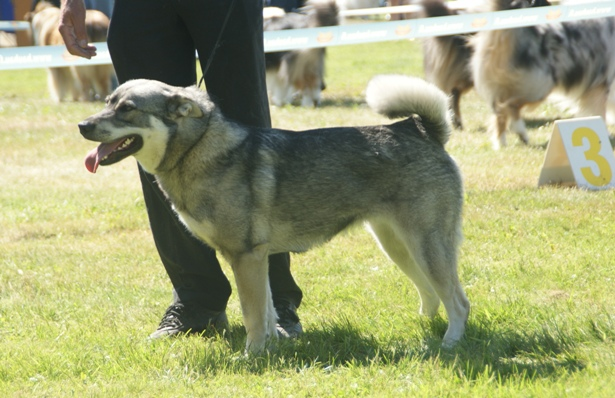 Swedish Elkhound.